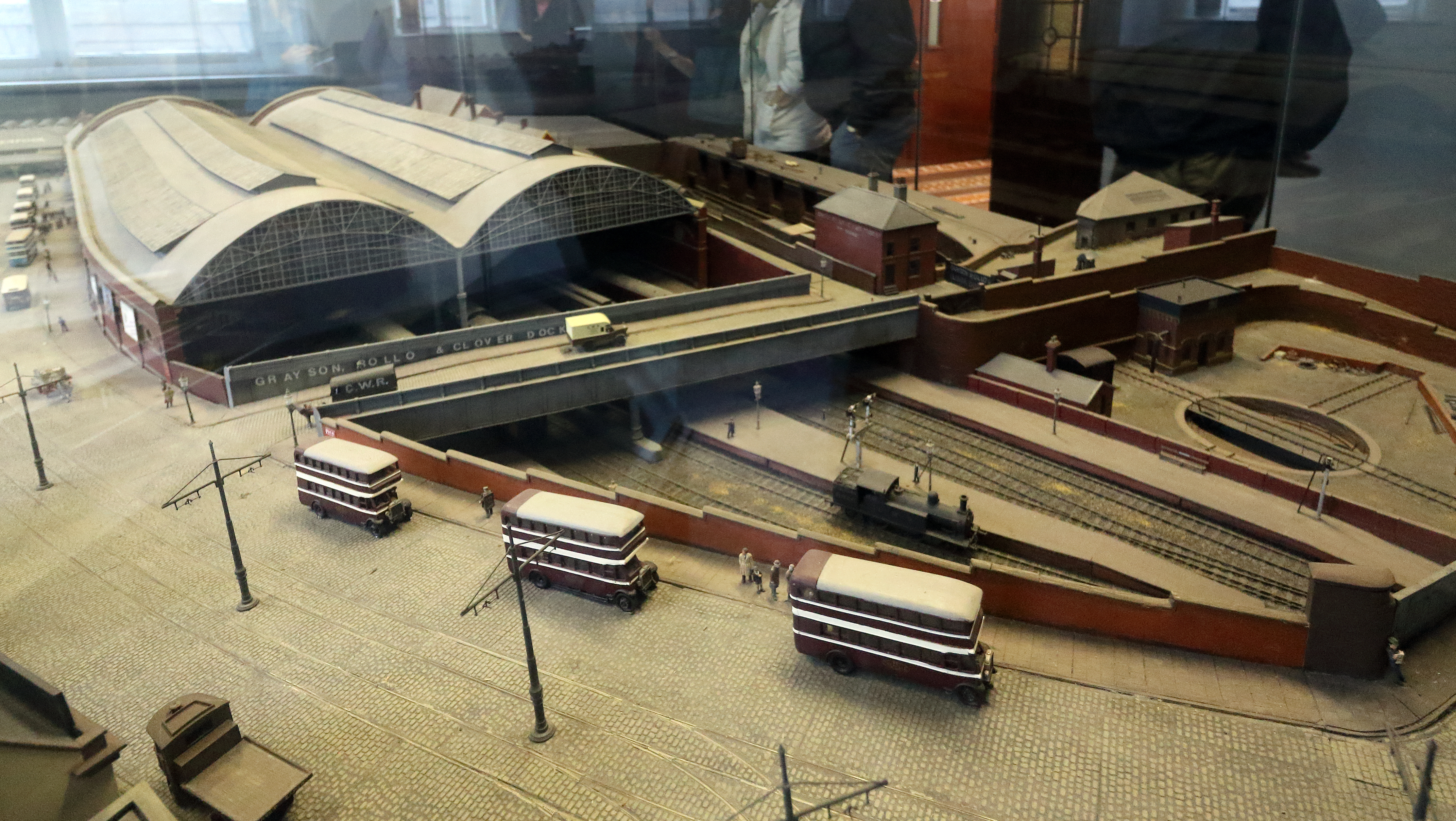 View of the rear of the shed from the other side. Trams running along Chester Street.